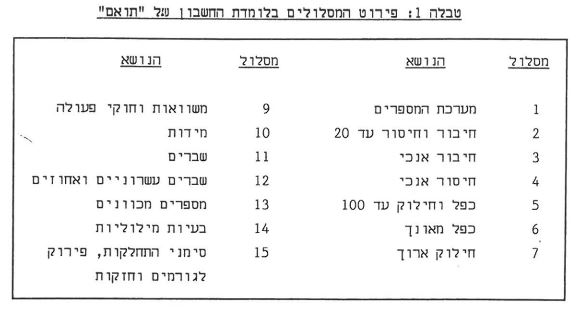 TOAM - Math Track list